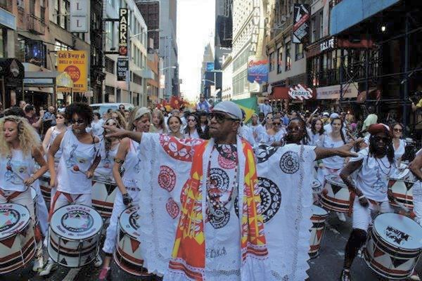 Batala founder Gina Gonçalves with members of Batala Mundo in New York City